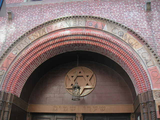 First American-Roumanian synagogue, Manhattan, New York - arch